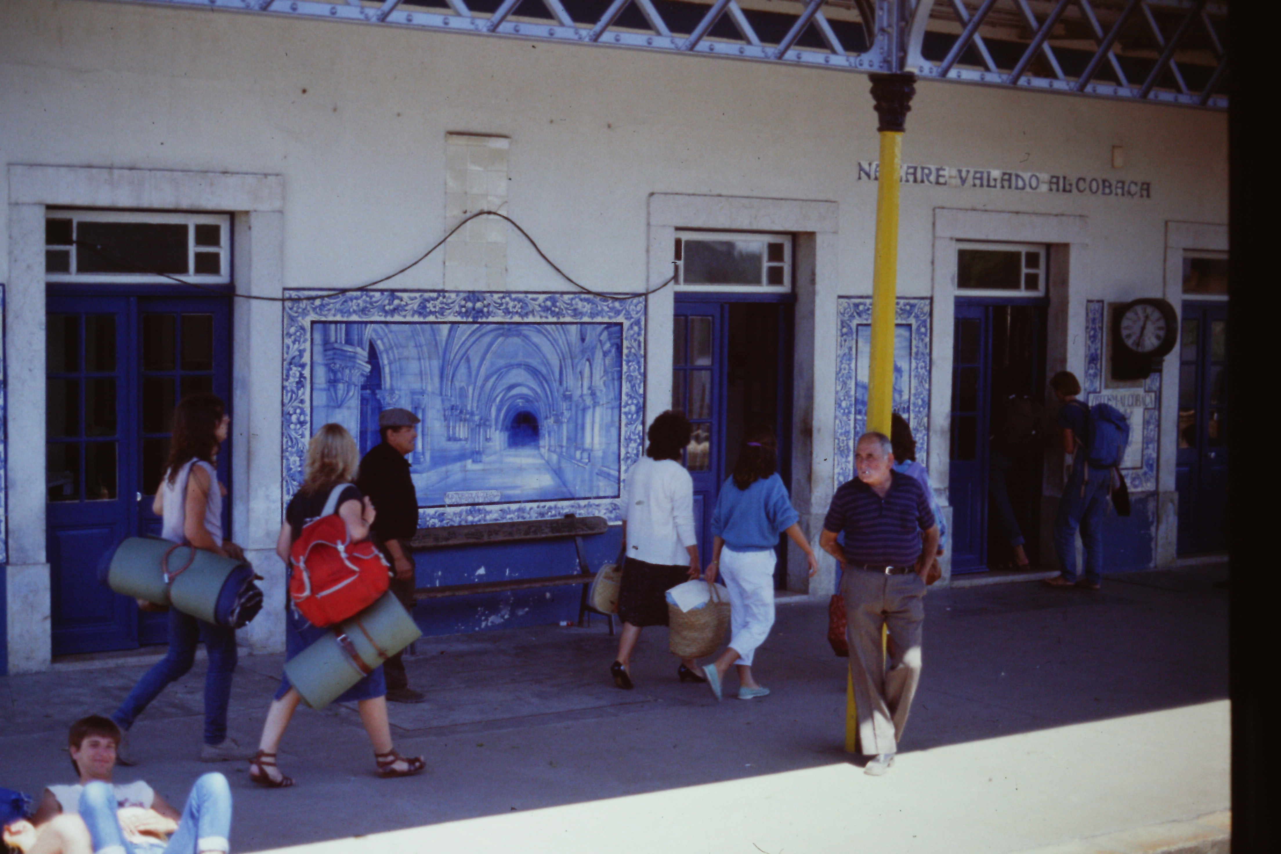 Valado train station at Oeste railway line; Portugal